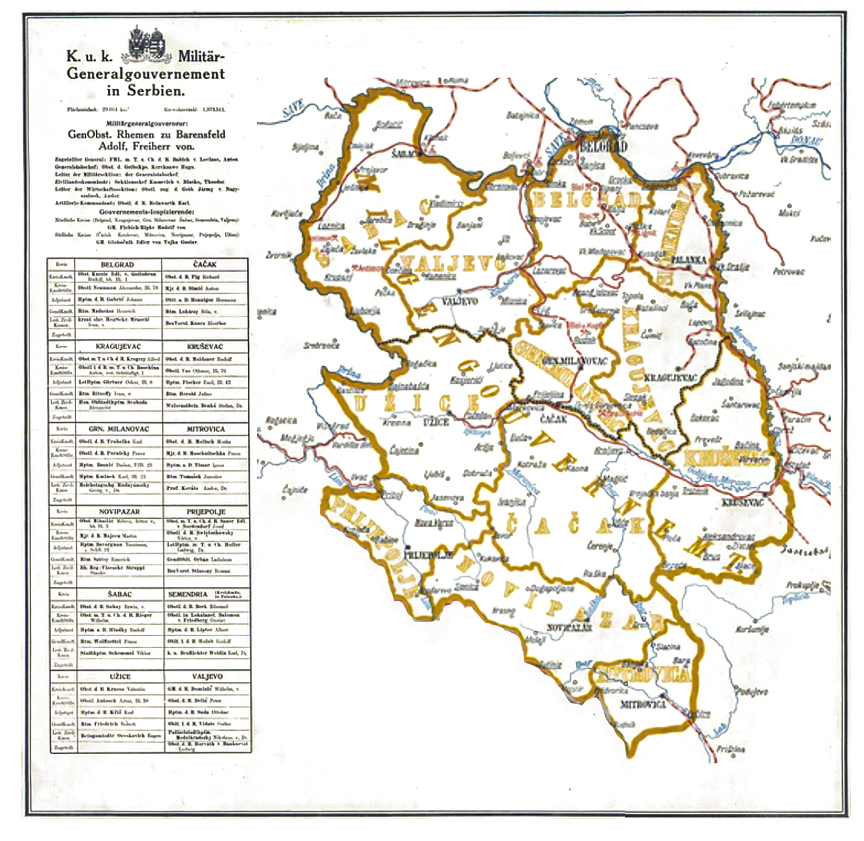 Austro-Hungarian zone of occupied Serbia during the First World War, (based on official Austro-Hungarian map).